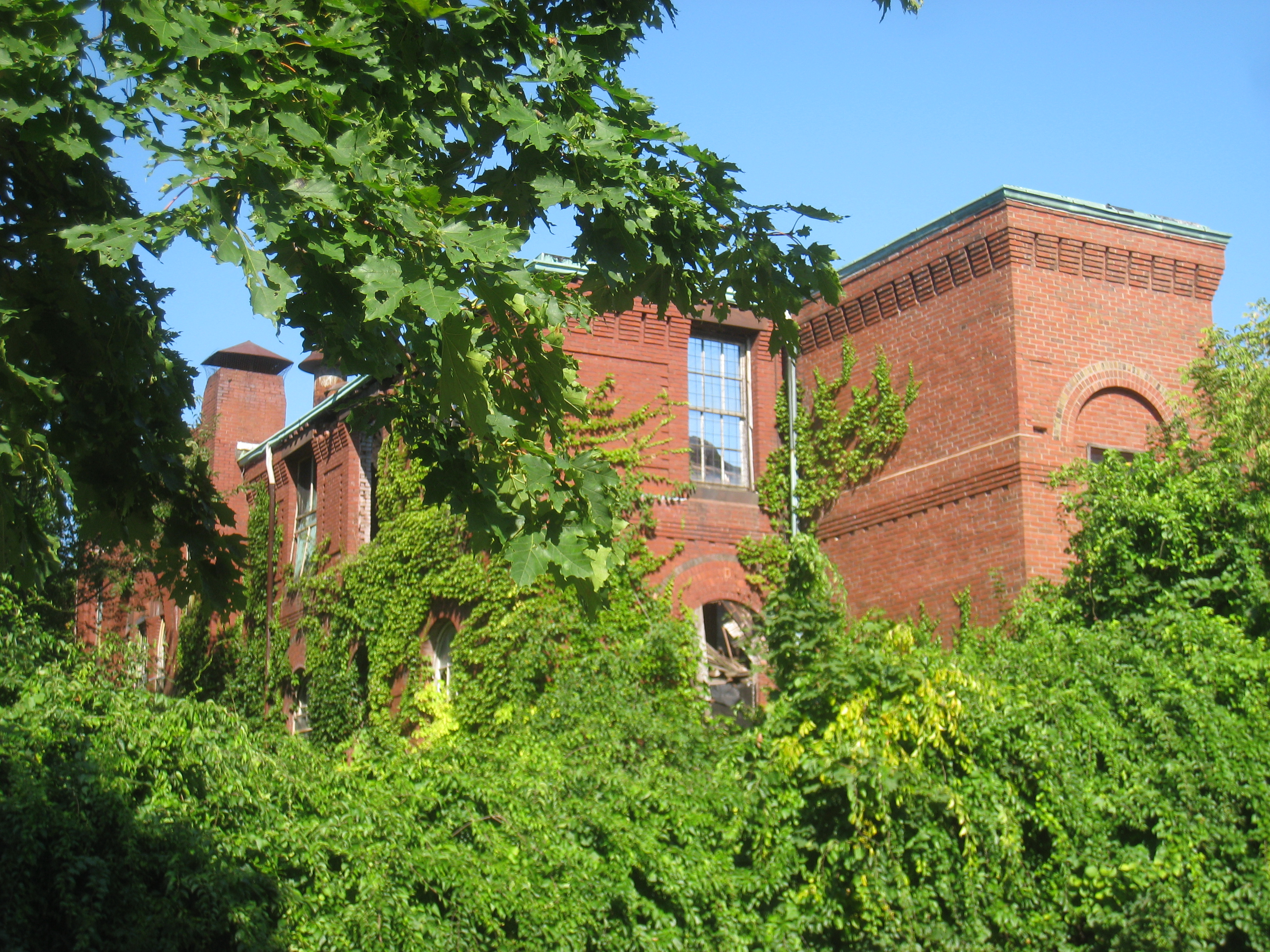 Walter E. Fernald State School, now the Walter E. Fernald Developmental Center, Waltham, Massachusetts, USA.